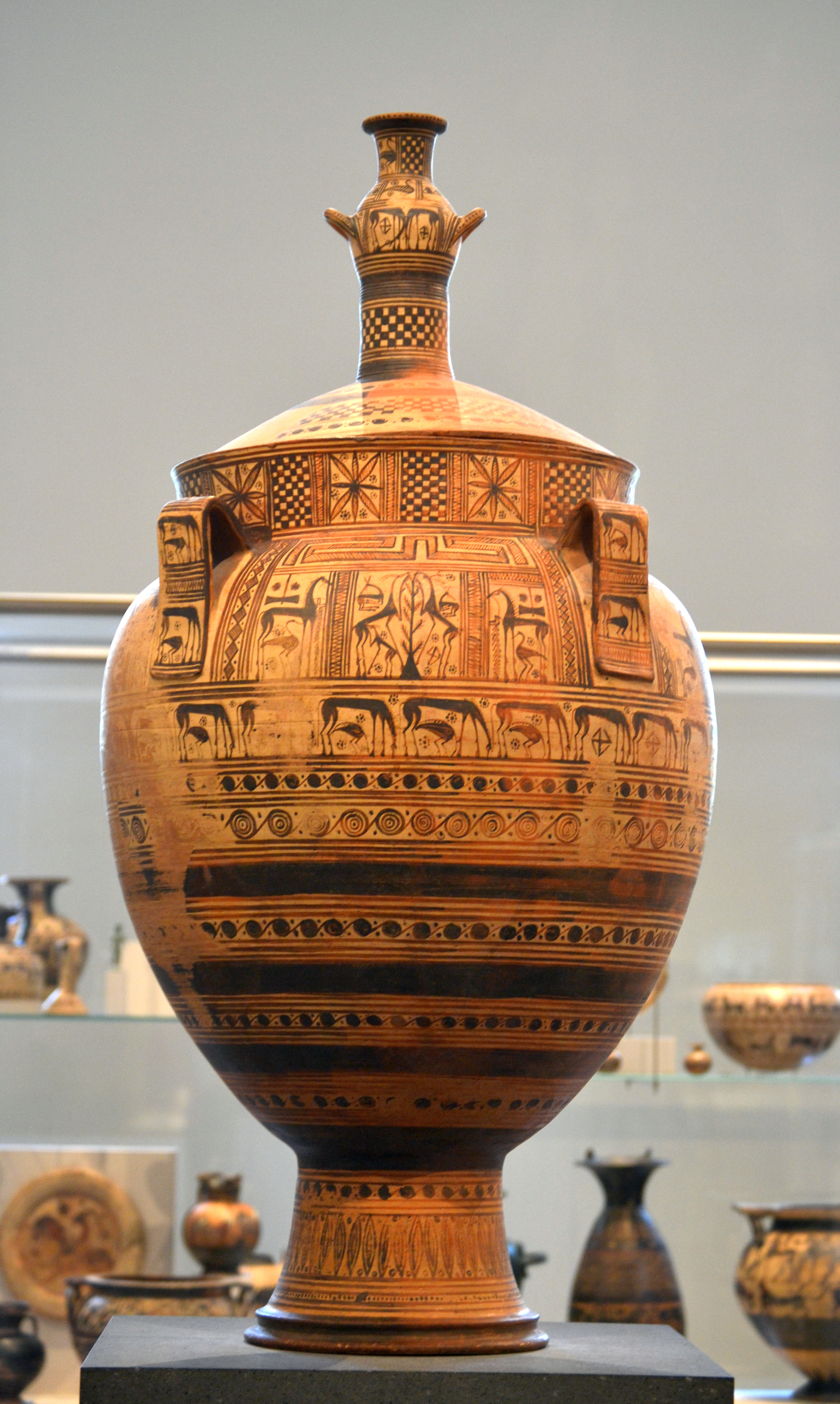 Cesnola krater Terracotta krater with lid surmounted by a small hydria Attributed to the the Cesnola Painter (name vase) Period: Geometric Date: ca. 750–740 B.C. Culture: Greek, Euboean Medium: Terracotta Dimensions: H. 45 1/4 in. (114.9 cm) Classification: Vases Credit Line: The Cesnola Collection, Purchased by subscription, 1874–76 Accession Number: 74.51.965